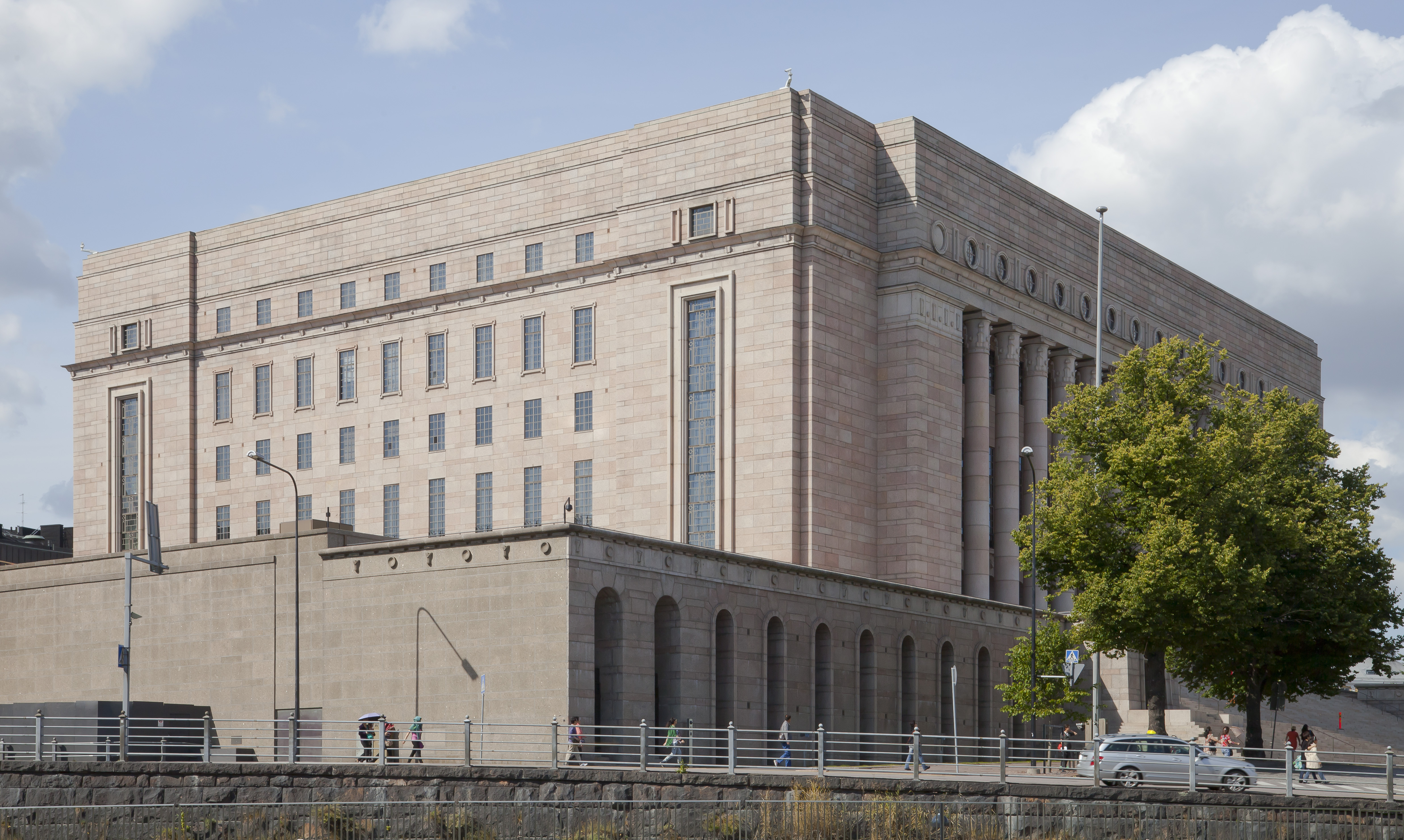 Parliament House, Helsinki, Finnland